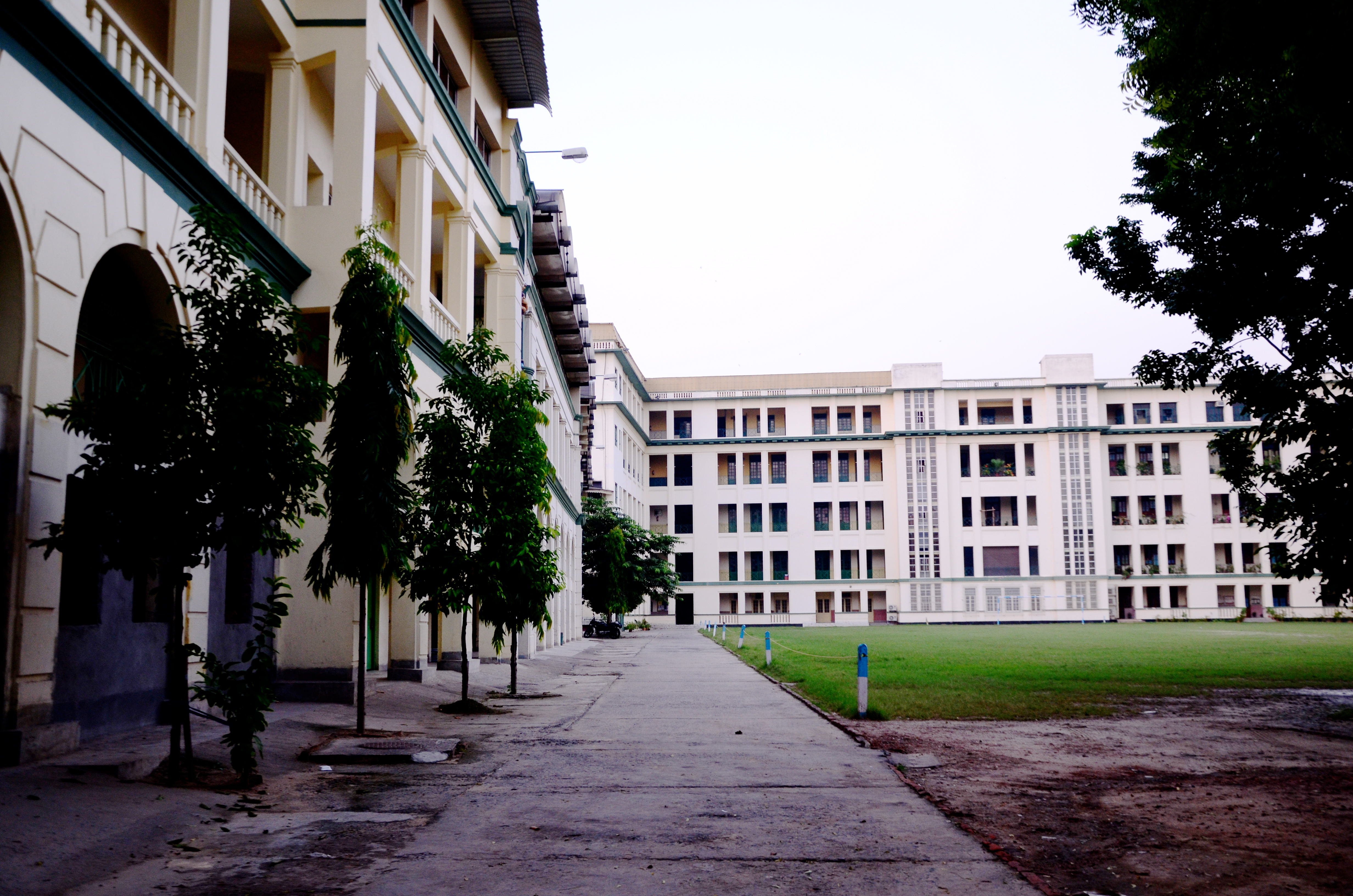 Campus building at St.Xaviers college, kolkata